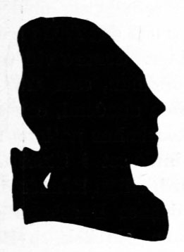 Petter Lindahl. Picture published in Volume 1 (of 8) of Nils Personne’s history of Swedish theatre.